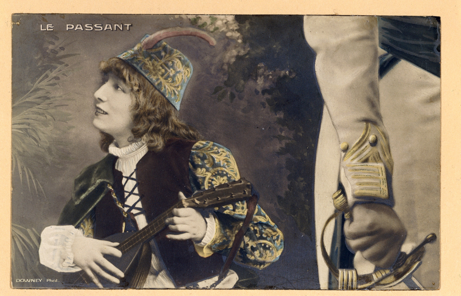 Postcard. Sarah Bernhardt as the boy troubadour, Zanetto, in Le Passant (1869) by François Coppée